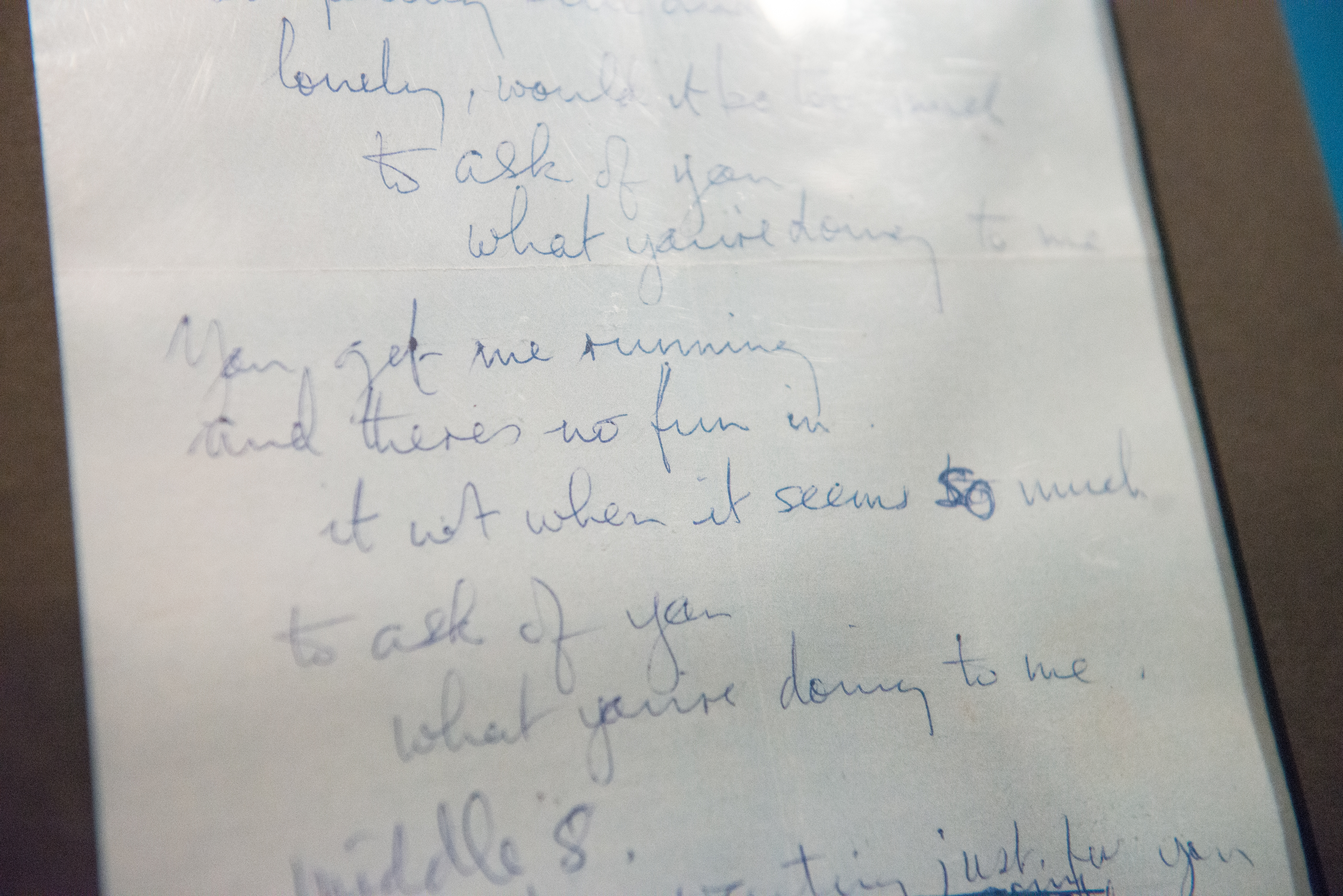 "Ladies and Gentlemen...The Beatles!", a traveling exhibit curated by the GRAMMY Museum® and Fab Four Exhibits, is open at the LBJ Presidential Library from June 13, 2015 through January 10, 2016. More than 400 pieces of memorabilia, records, rare photographs, tour artifacts, video, and instruments are on display, including John Lennon's missing Gibson J-160E guitar. The guitar is on display for two weeks only, from June 13 until June 29, 2015. Photo by Lauren Gerson. Flickr album "Exhibit: "Ladies and Gentlemen... the Beatles!"" by LBJ Foundation " "Ladies and Gentlemen…The Beatles!" is a traveling exhibit curated by the GRAMMY Museum® and Fab Four Exhibits that explores the impact The Beatles' arrival had on American pop culture, including fashion, art, advertising, media and music, from early 1964 through mid-1966 – when the British boy band was at its peak.On display will be more than 400 pieces of memorabilia, records, rare photographs, tour artifacts, video, and instruments from private collectors and the GRAMMY Museum, including the original Ludwig drum head Ringo played on "The Ed Sullivan Show." It even includes an oral history booth where visitors can leave their own impressions of the timeless group.Photos by Lauren Gerson. "